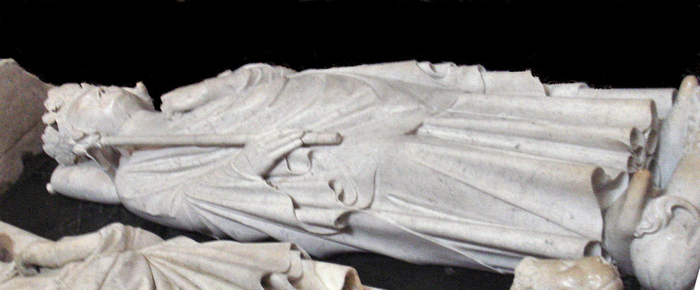 Tomb_of_Philippe_le_Bel_in_SaintDenis